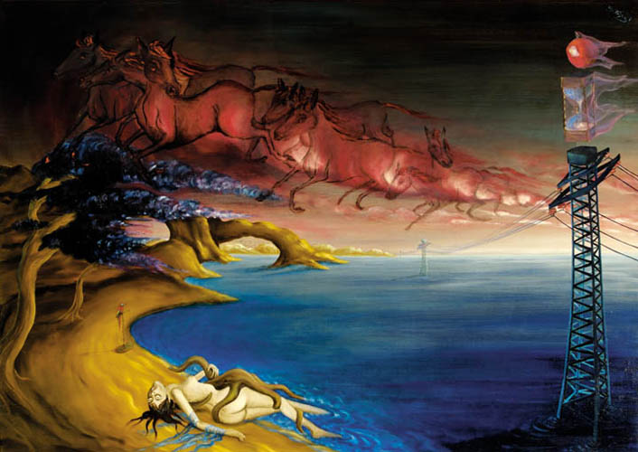 Lubo Kristek: All-sided High Tension, 1975-6, oil on canvas, 98x140 cm